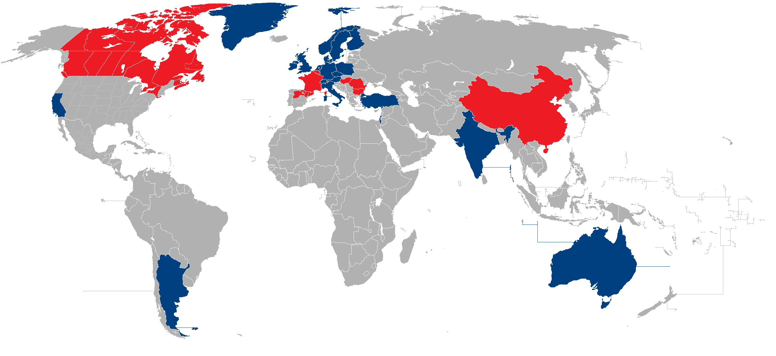 Bulgaria highlighted instead of Romania as main growing country